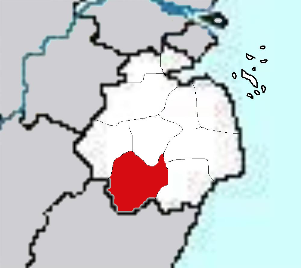 Maps of Zhejiang Province of China